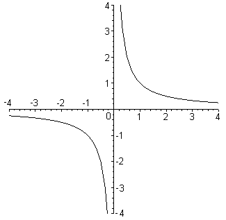 made by Romero Schmidtke